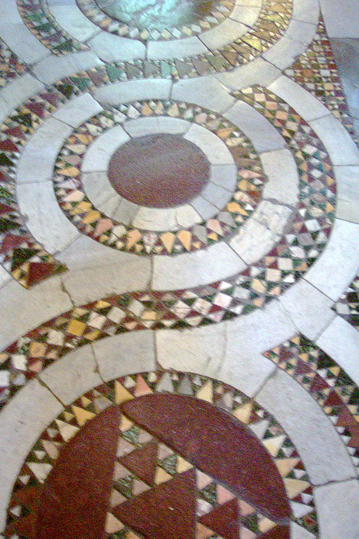 Cosmatesque pavement in San Clemente, Rome